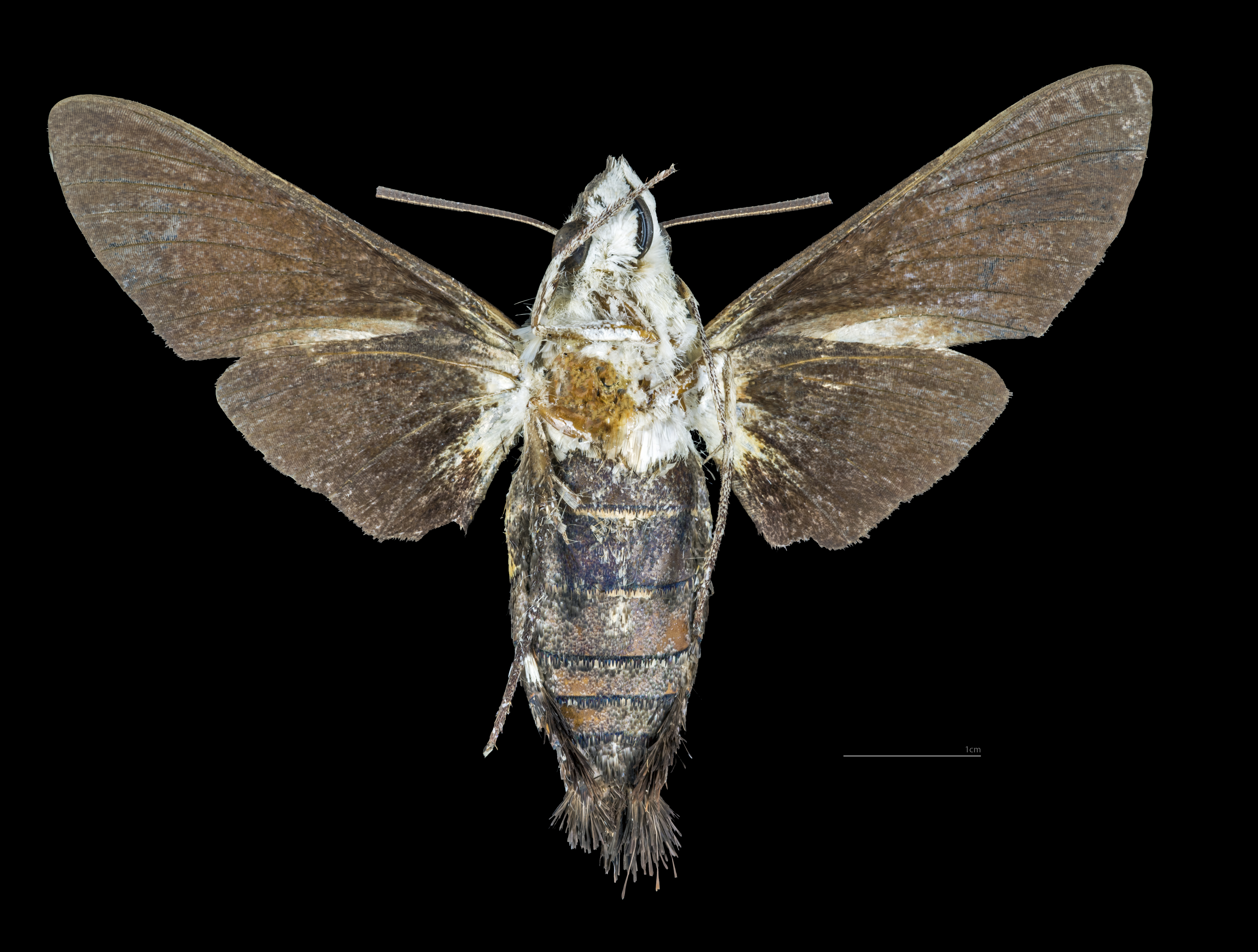 Macroglossum bombylans - △ Ventral side Collection of the Mathematician Laurent Schwartz